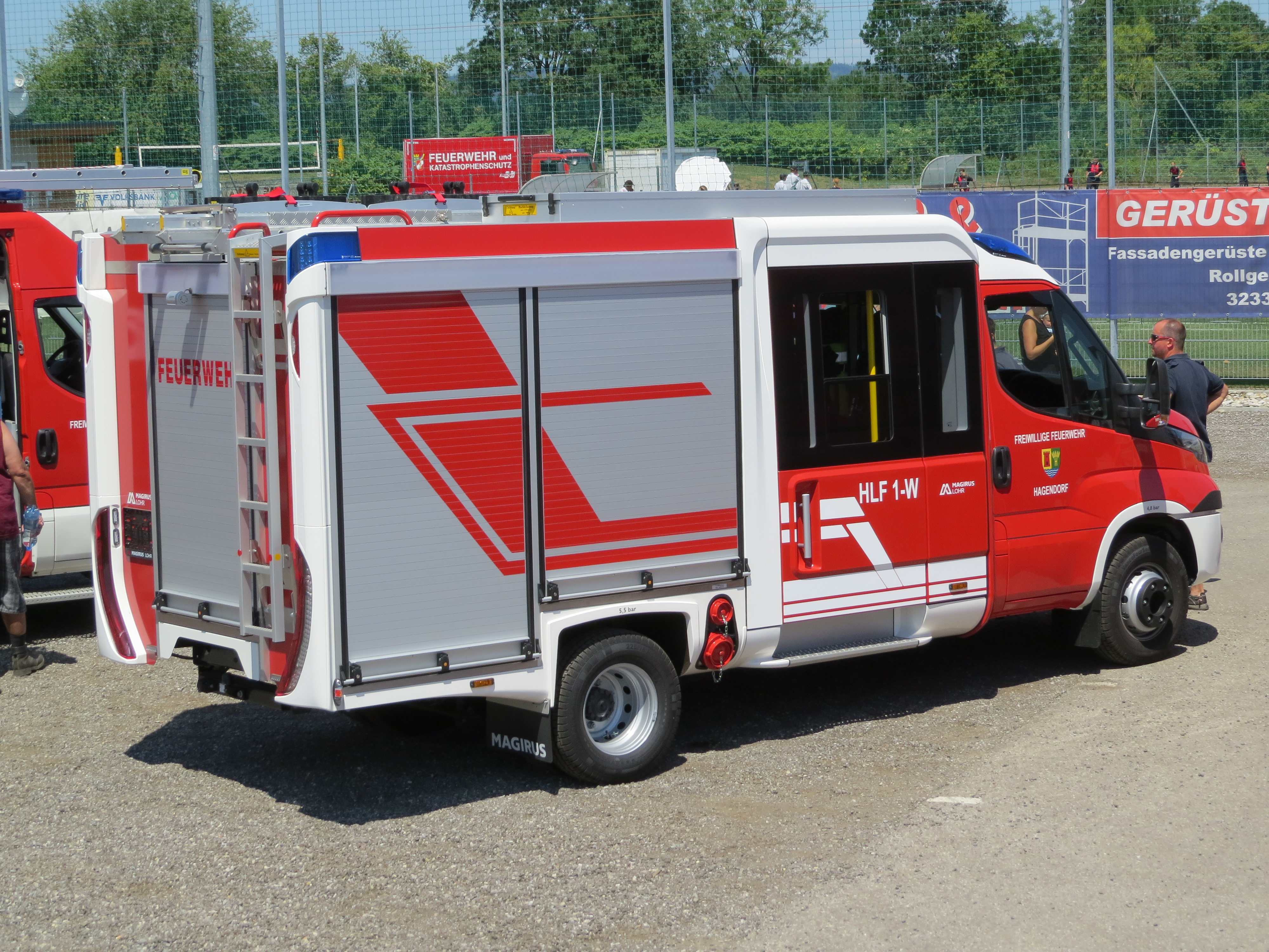 HLF 1-W Hagendorf at 47. Meeting of the Lower Austrian Fire Brigade Youth 2019 in Mank, Austria